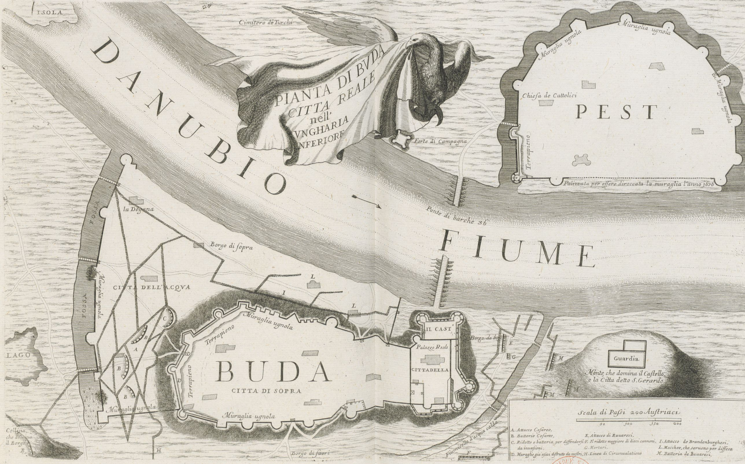 Buda and Pest